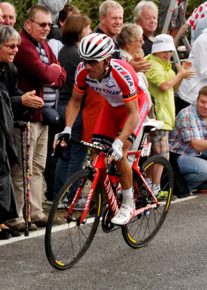 Personality rights warningAlthough this work is freely licensed or in the public domain, the person(s) shown may have rights that legally restrict certain re-uses unless those depicted consent to such uses. In these cases, a model release or other evidence of consent could protect you from infringement claims.